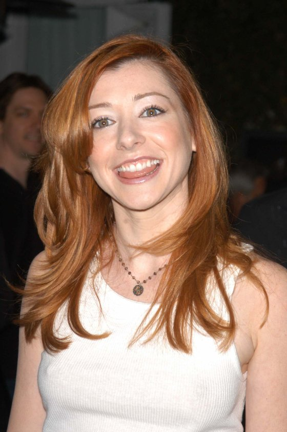 Actress Alyson Hannigan at "Buffy The Vampire Slayer" Wrap Party April 2003